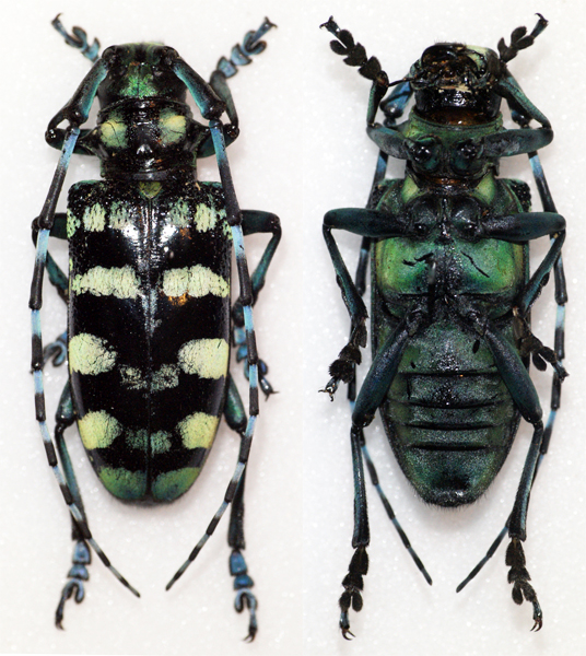 Thomson,1878 Sex: Female Data: 15-05-08 - Wiang pa pao - Chiang Rai - North Thailand Size: ?